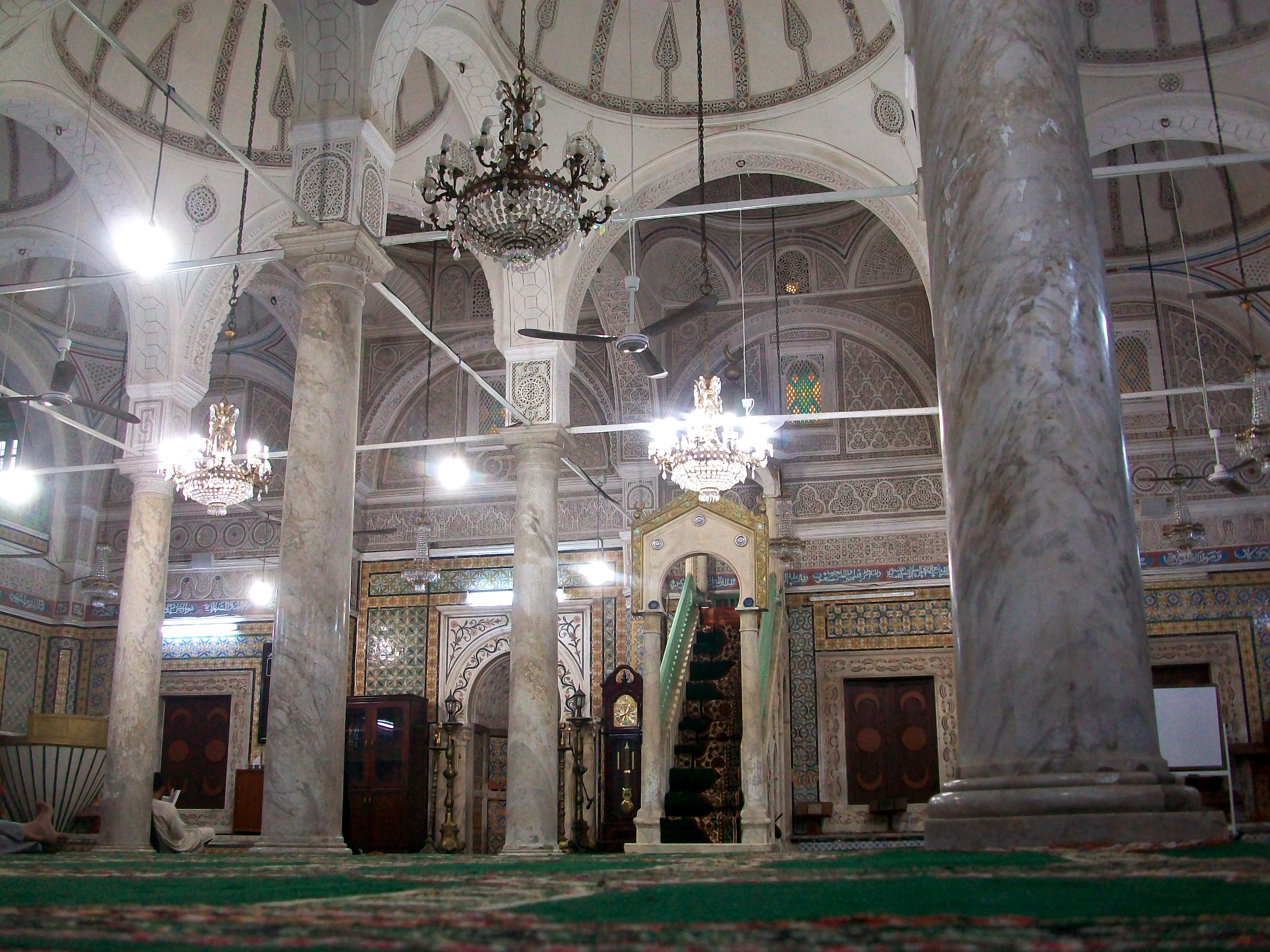 Interior of the Gurgi Mosque in the medina of Libya's capital Tripoli.